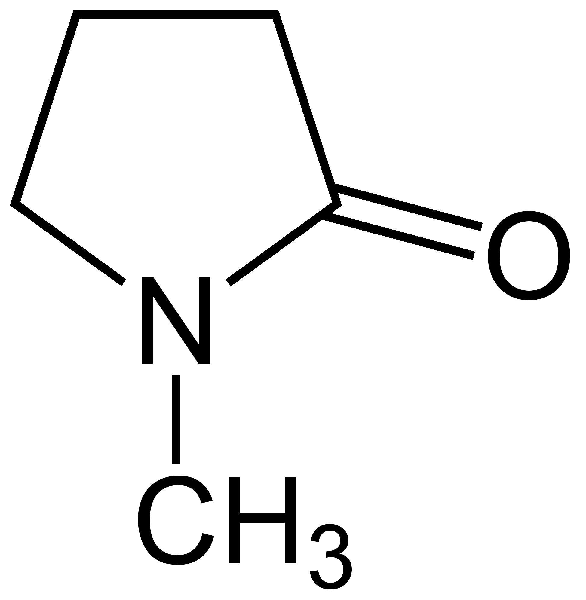 N-Methylpyrrolidone_Structural_Formulae